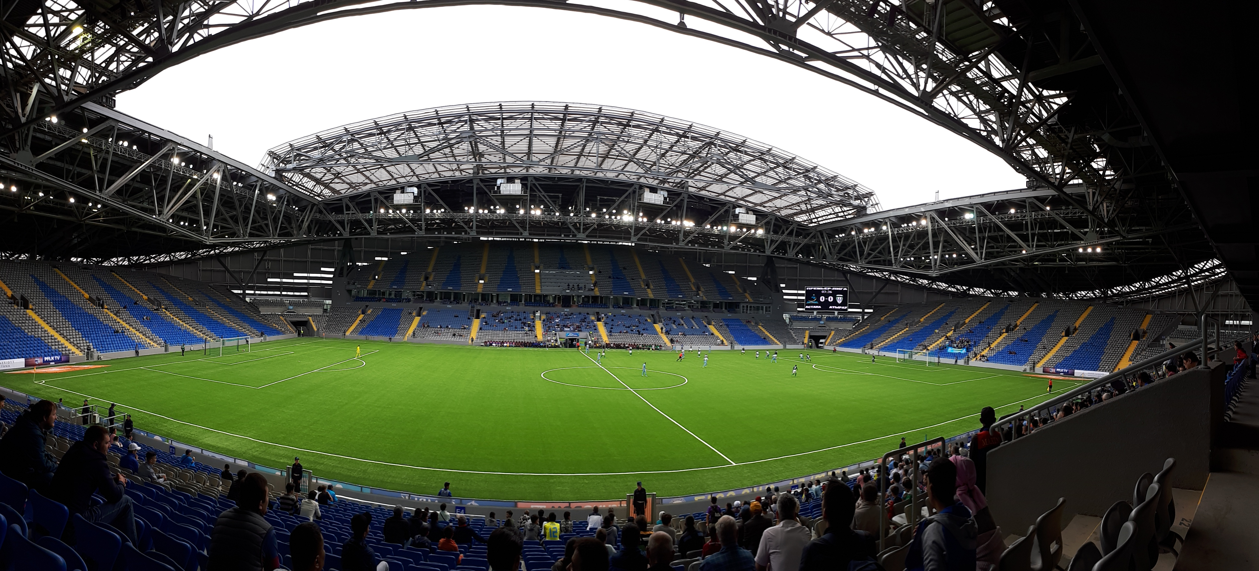 Panorama of the Astana Arena during the Kazakhstan Premier League match between Astana and Atyrau on 9 September 2017.